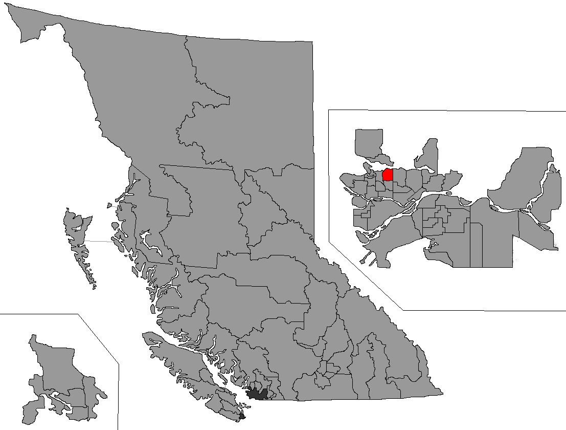 British Columbia 2015 electoral district redistrubution